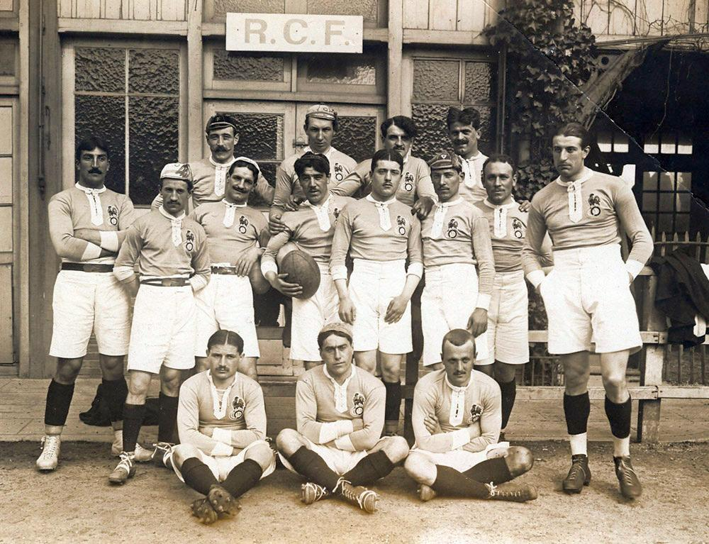 Equipe de France before playing against England, on April 13. 1914. The team is at the Stade de Colombes. Of the 30 players who played in this match, 11 were killed in World War I.